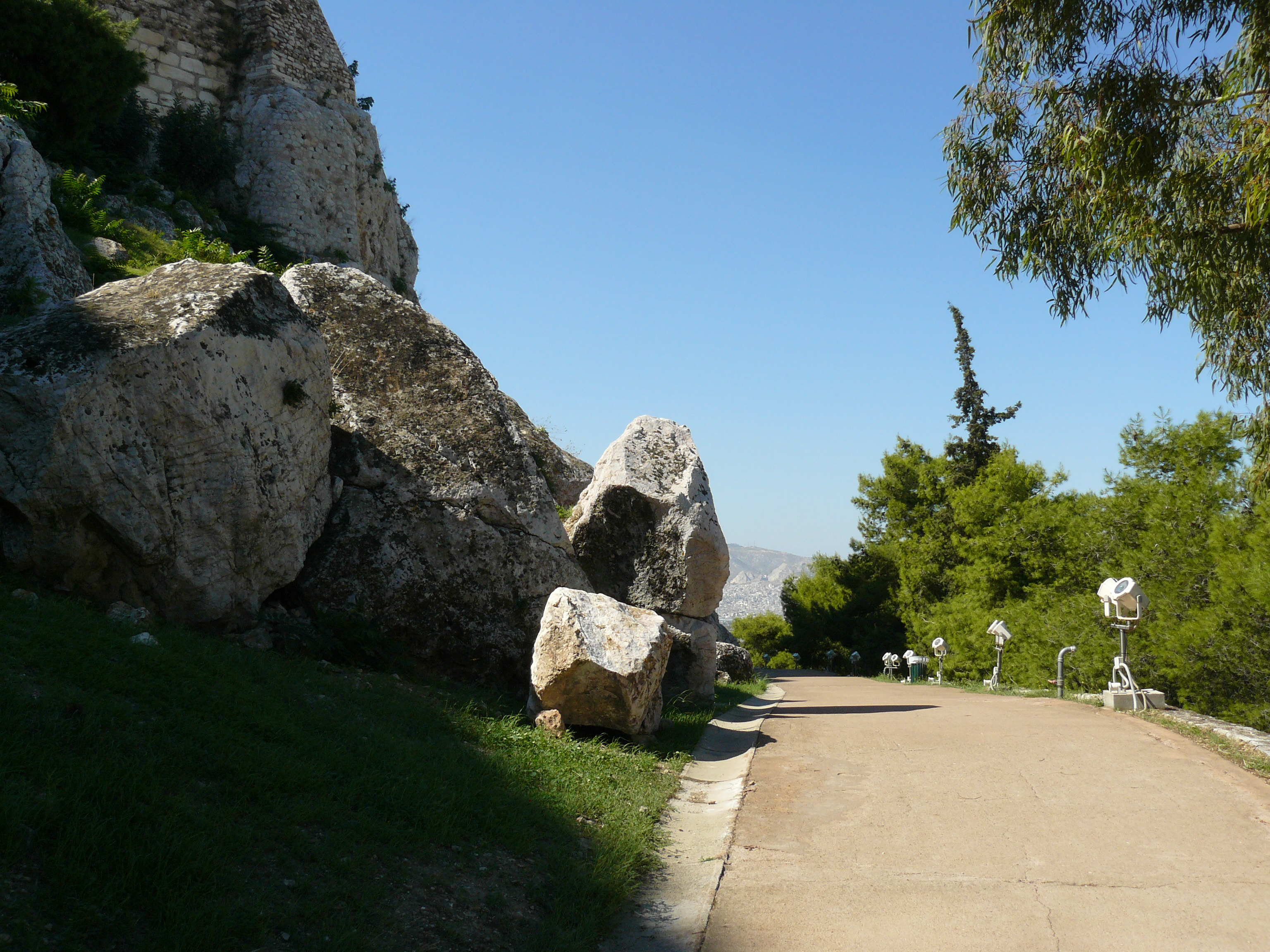 The Peripatos, ancient way surrounding the Acropolis of Athens